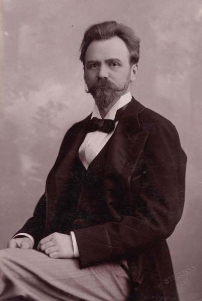 Picture of Jenő Hubay 1897